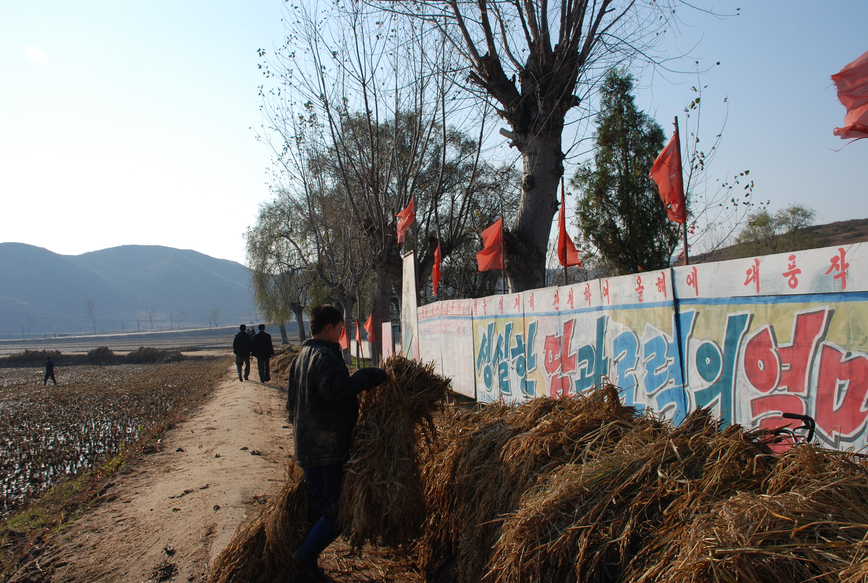 Agriculture in North Korea relies heavily on manual labor with few machines in sight. During harvest season, students and pupils are often drafted in from cities to help bring in the crops in time before the autumn rains.